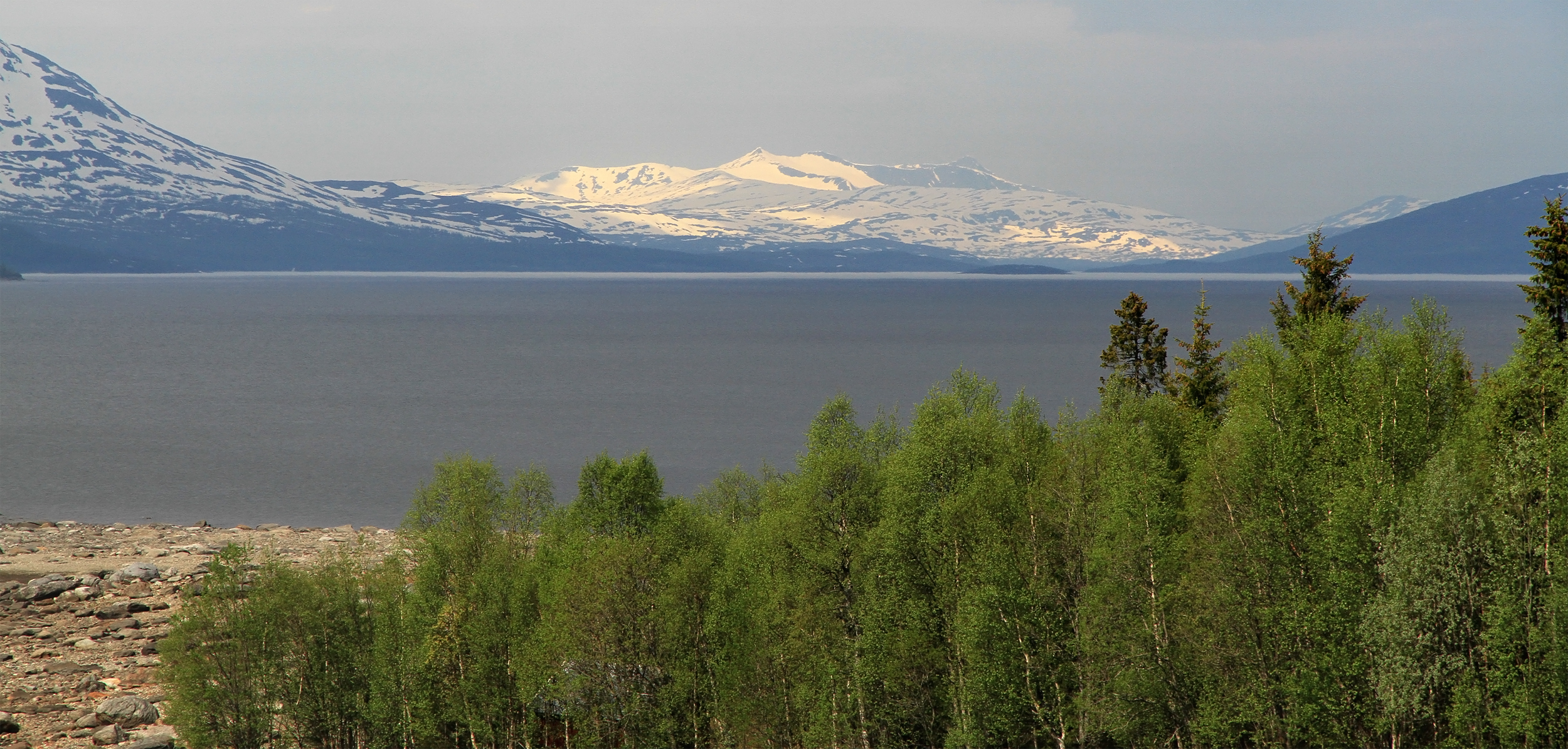 Røssvatnet (lake) with a mountain massif including Dårtindan and Lukttinden in the background. Photograph taken in Hattfjelldal, Nordland, Norway in 2011 June.